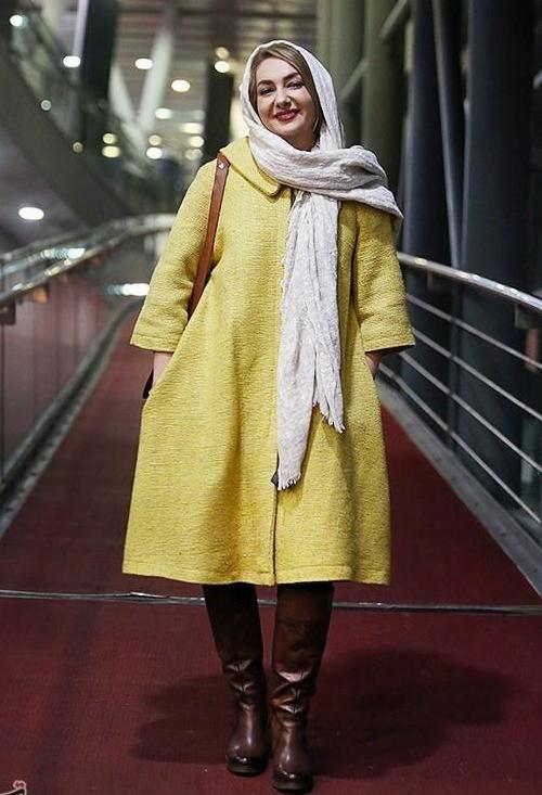 Day 4 of 35th Fajr International Film Festival at Mellat Pardis